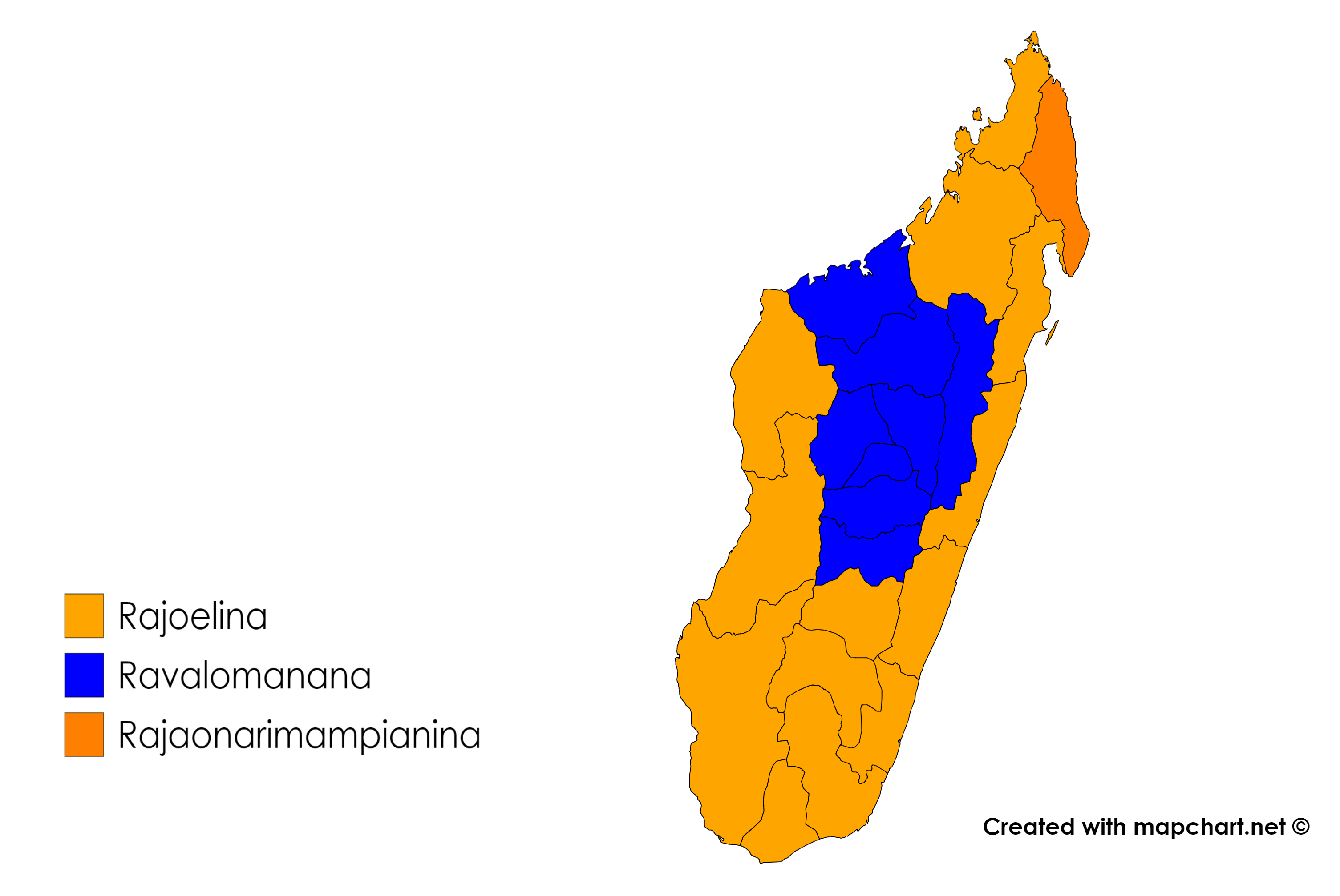 First place candidate on first round per malagasy region in the 2018 presidential election.